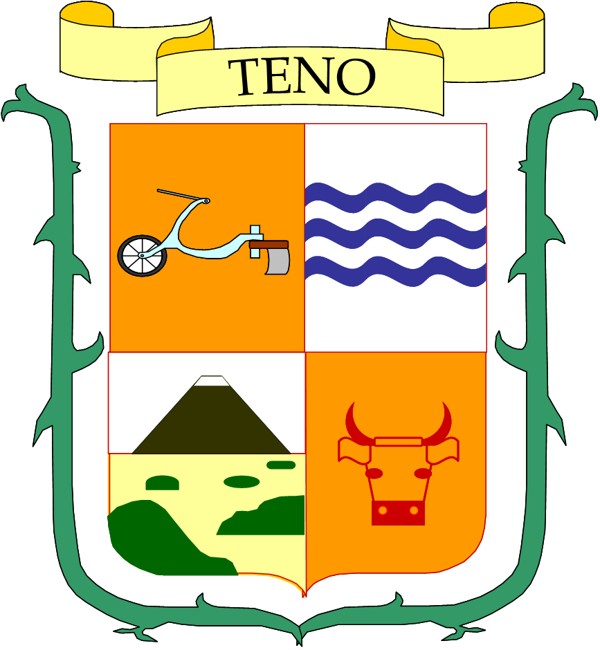 Coat of arms of Teno commune, in Chile